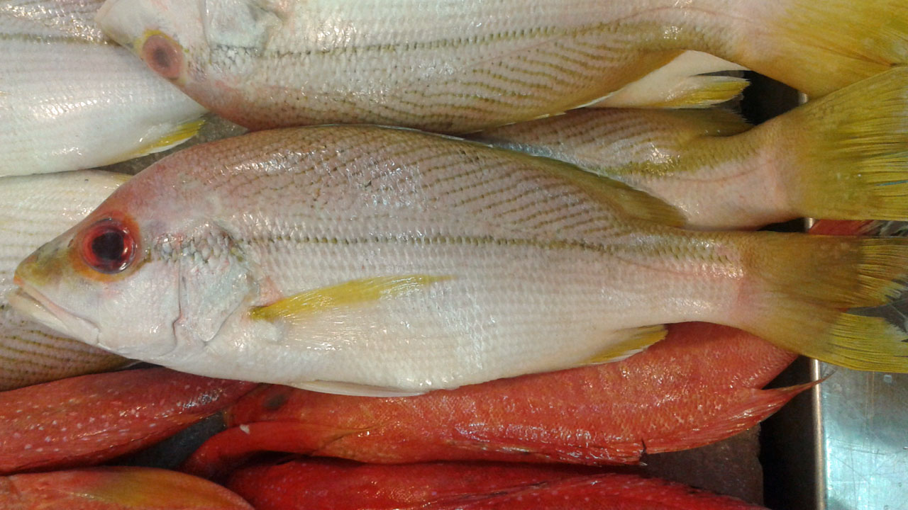 Lutjanus vitta (brown striped snapper) being sold at a supermarket in the Philippines. Of the commonly-caught, inshore, coral reef-associated food fish in the country, snappers are often highly valued. Tagalog: Lutjanus vitta na binebenta sa SM Hypermarket sa Pasig. Ito ay isa lamang sa mga uri ng isda na tinatawag na "maya-maya" sa Tagalog.